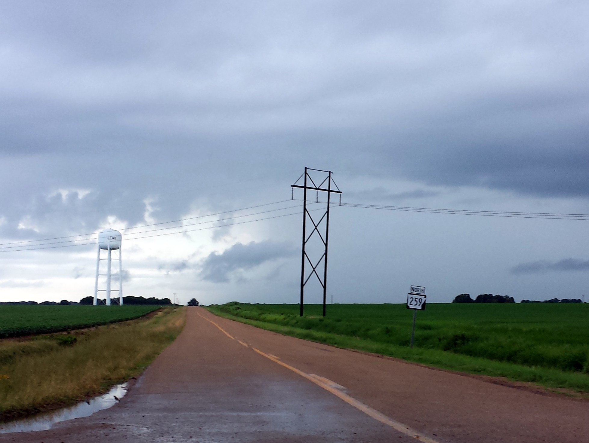 Highway 259 in Arkansas between Marianna and Brinkley